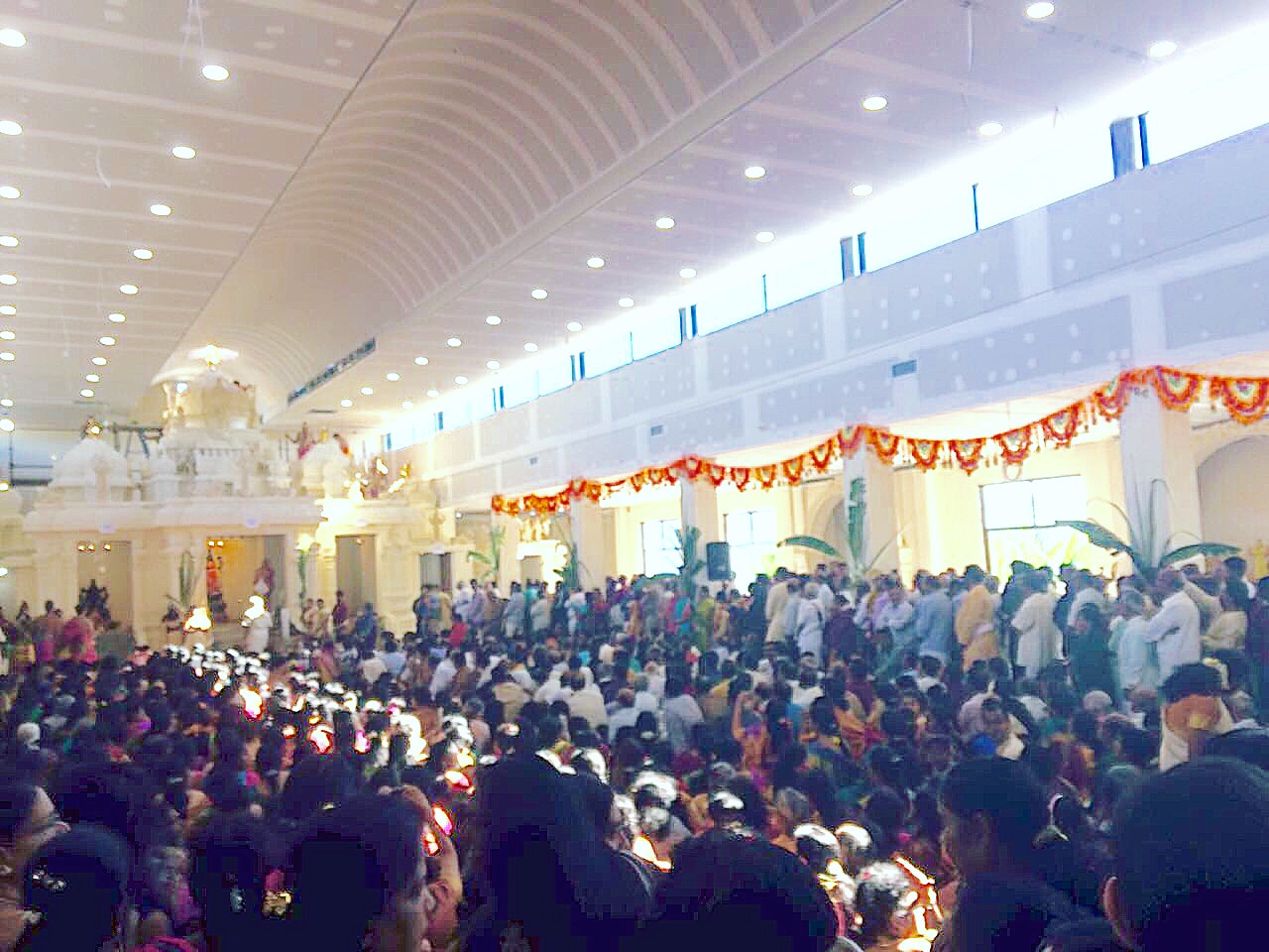 Sydney Durga Temple Maha Kumbishekam